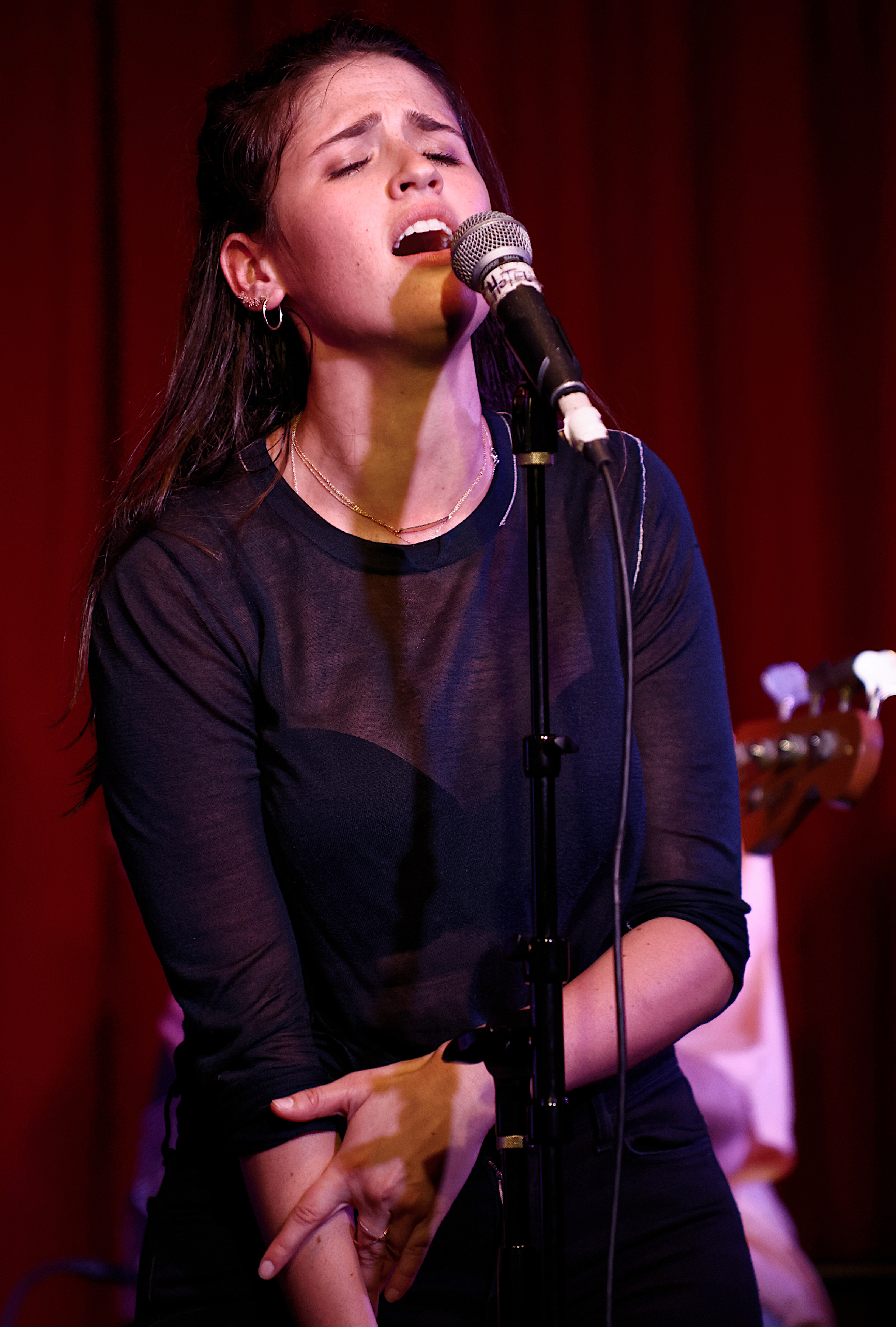 Rozzi Crane performing live at the Hotel Cafe in Hollywood (Los Angeles) California on Tuesday May 17th, 2016. This was Rozzi's second to last May residency show.